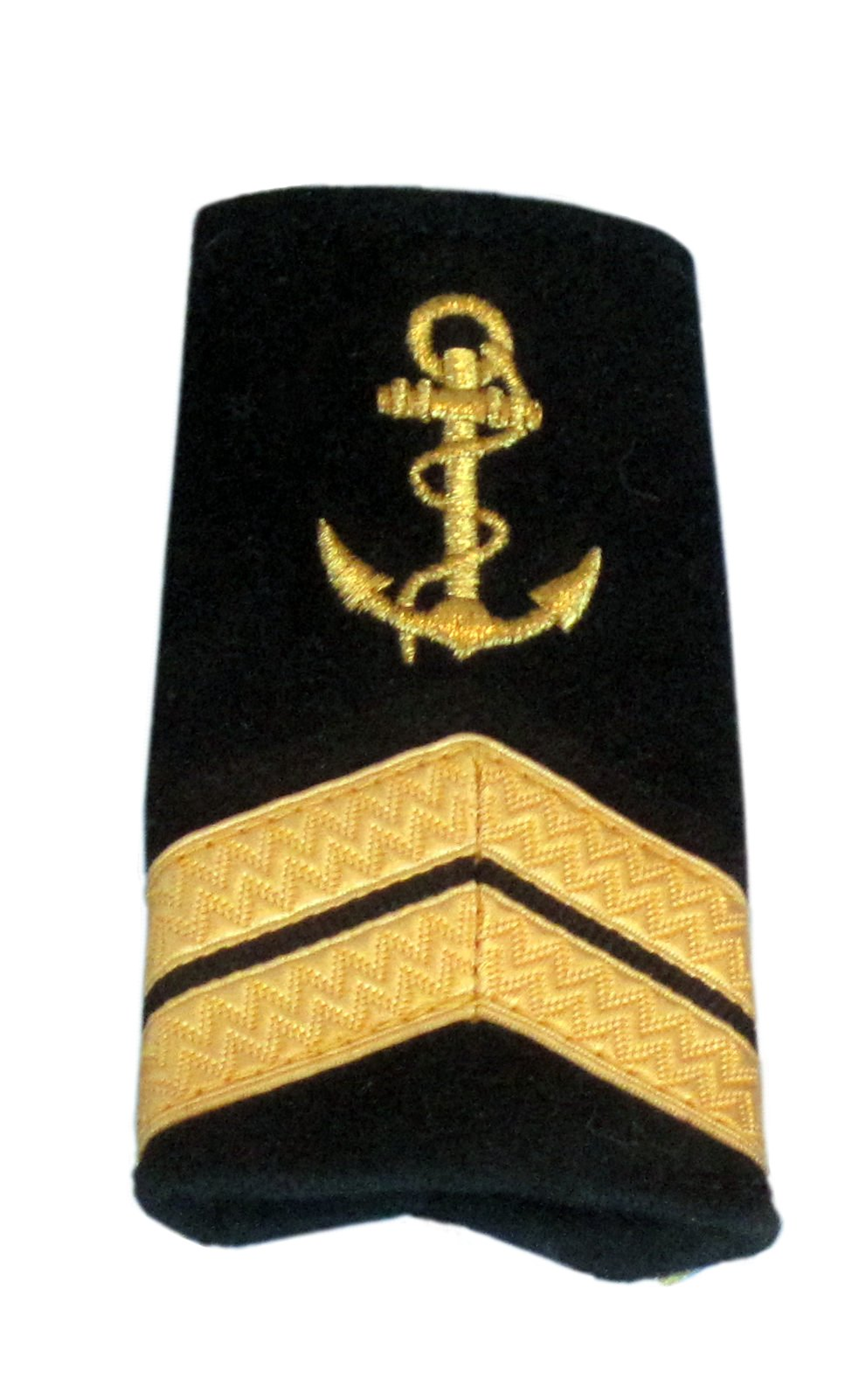 Insignia of a second maître